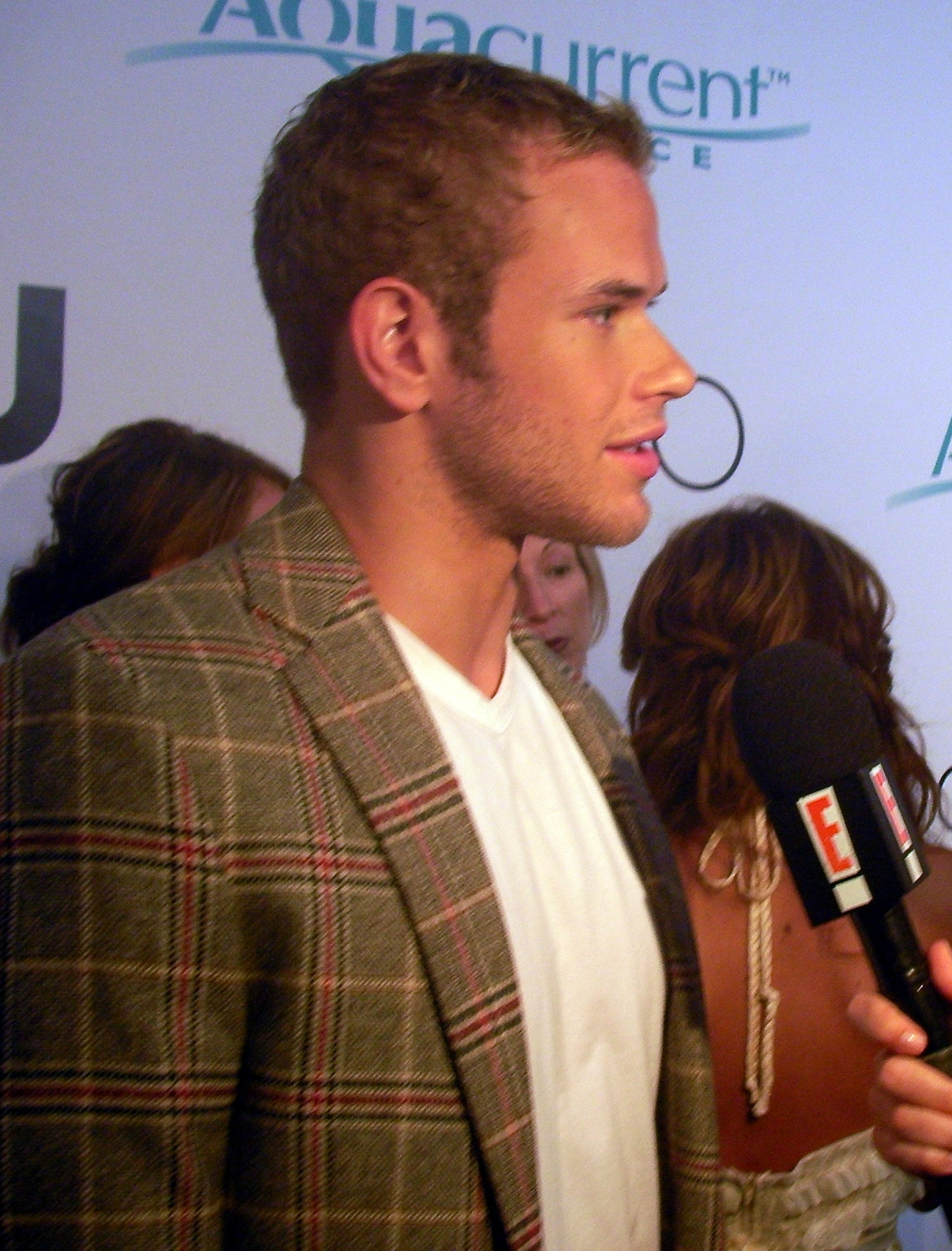 Premiere party for CW's "90210," Malibu, California - Aug. 23, 2008